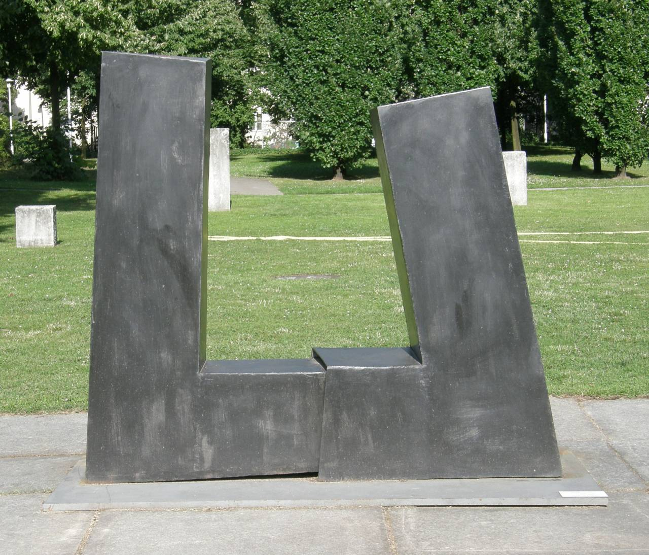 Sculpture "Paar 1998" by Rüdiger Preisler. Skulpturengarten AVK, Rubensstr. 125, Berlin (Schöneberg)